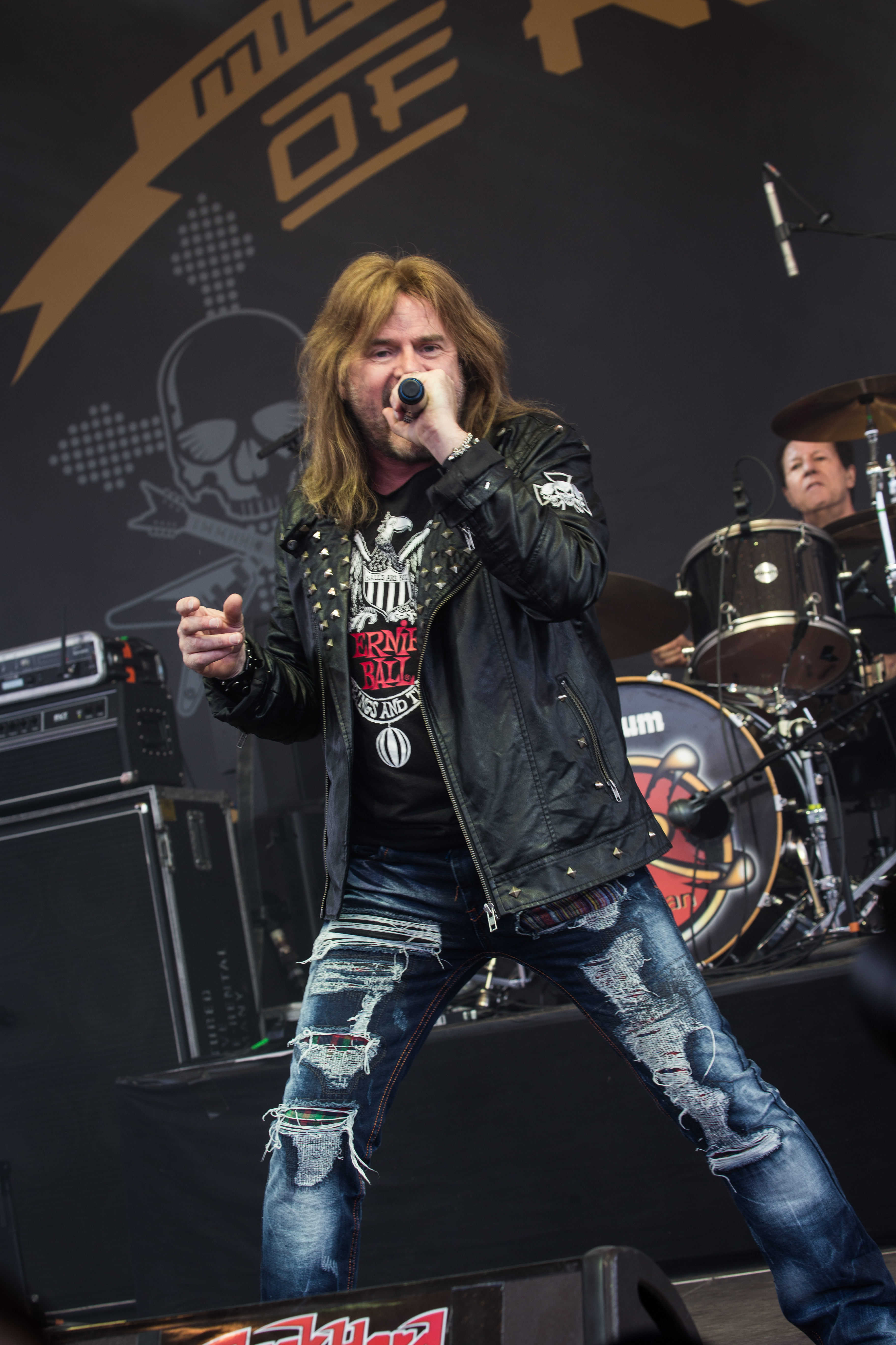 Michael Schenkers Temple of Rock performing live at Rock Hard Festival, May 2015, Gelsenkirchen